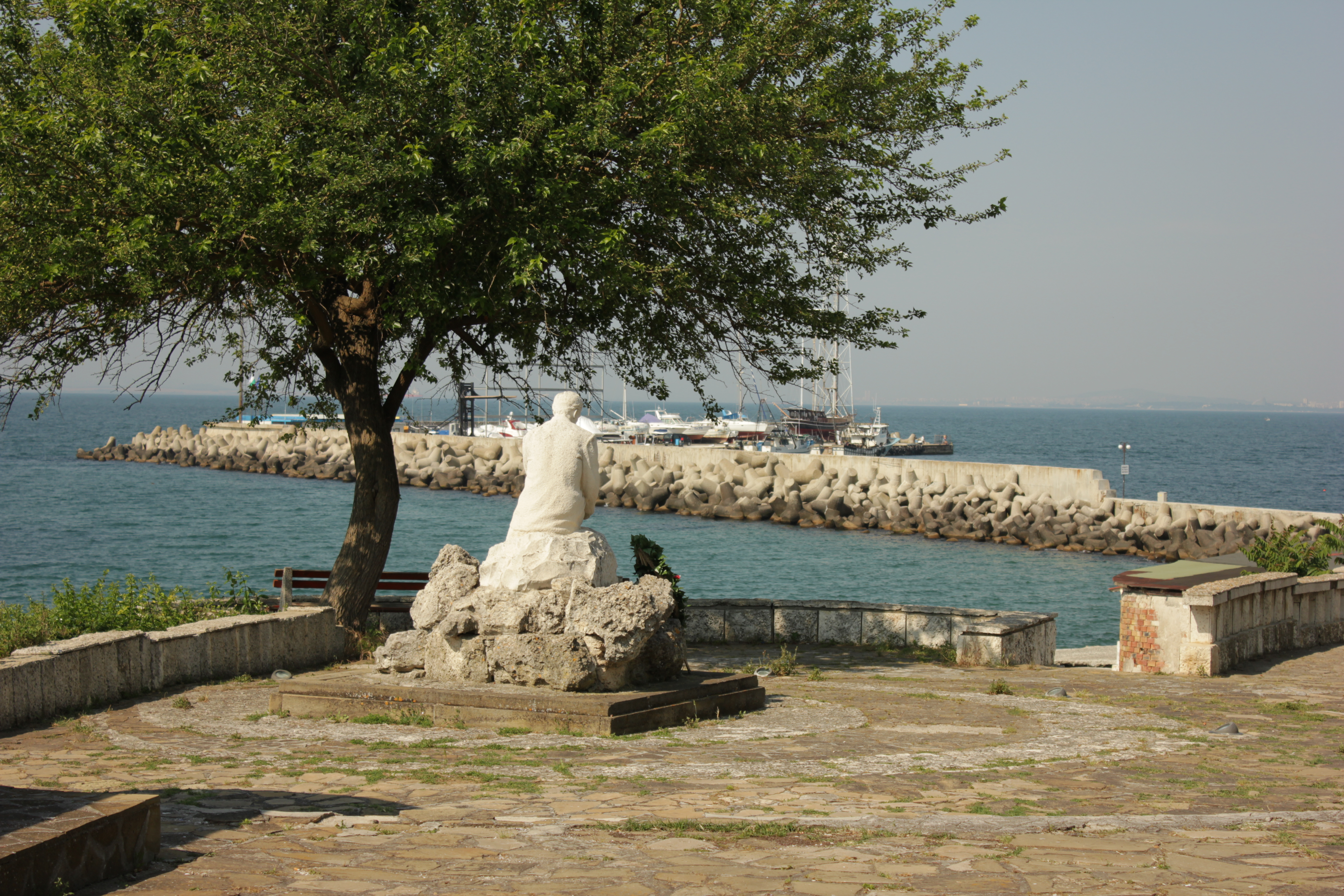 View from the Yavorov Rocks in Pomorie with Yavorov monument